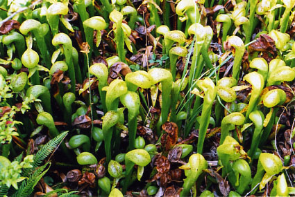 Darlingtonia californica. Taken at Darlingtonia State Natural Site, Oregon.